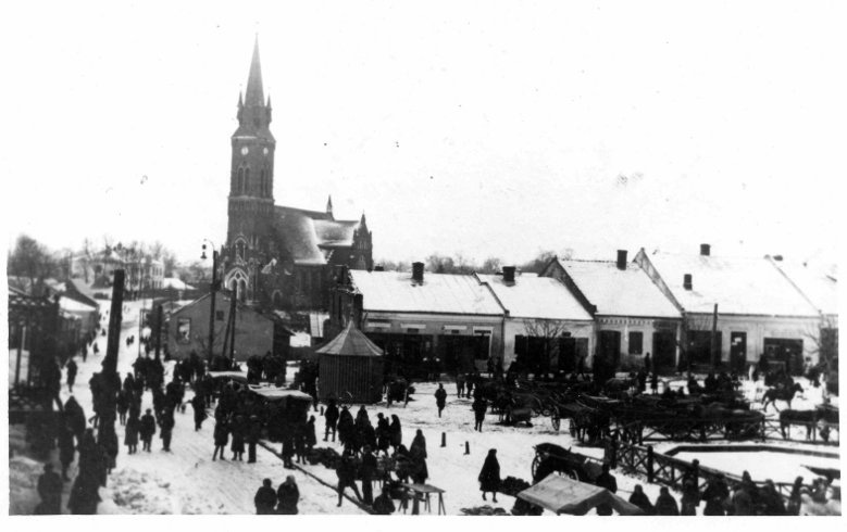 Sokolow Malopolski before WWII